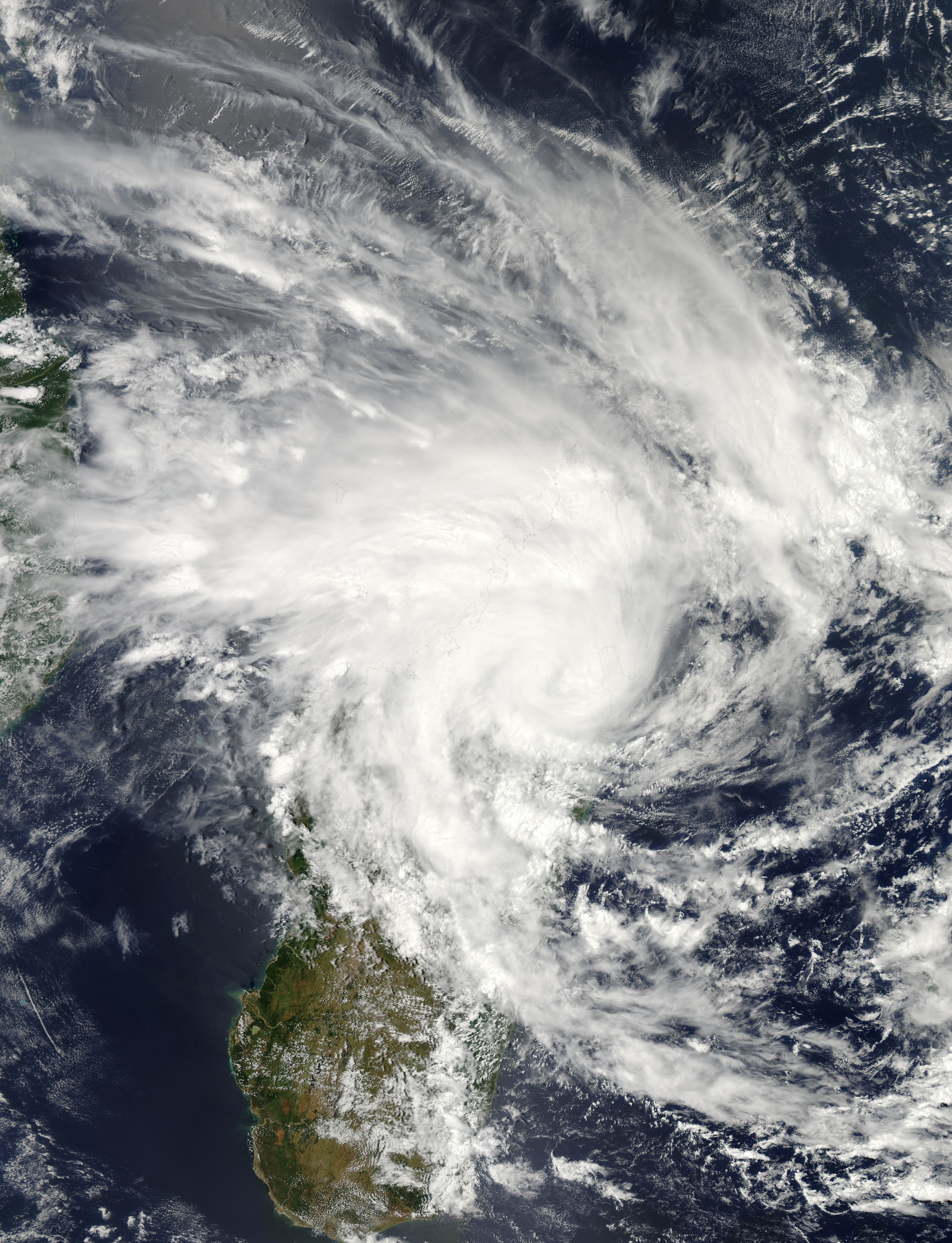 Tropical Cyclone Binigiza after landfall on Madagascar.